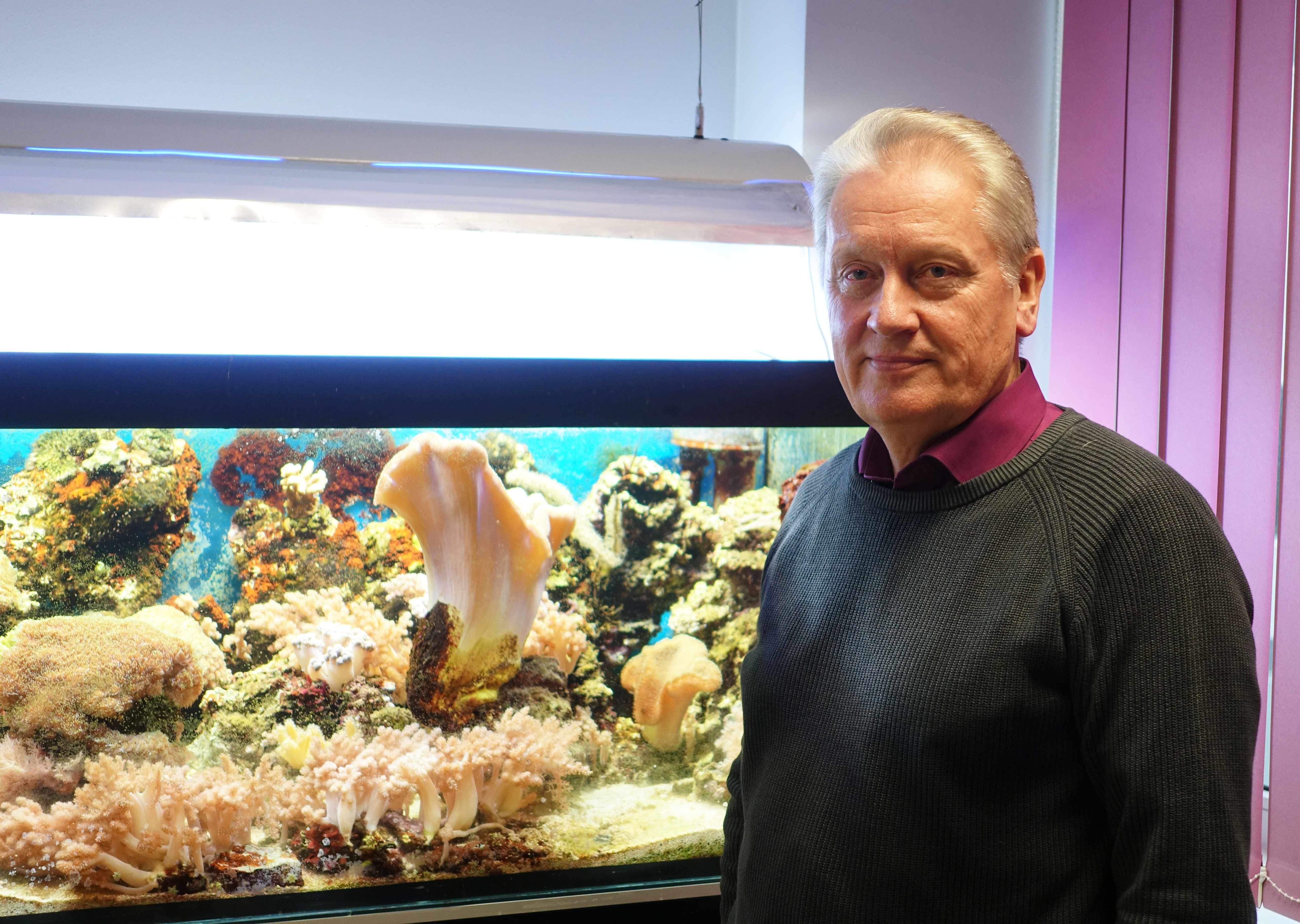 Nigluas Samel, biochemistry professor in Tallinn University of Technology